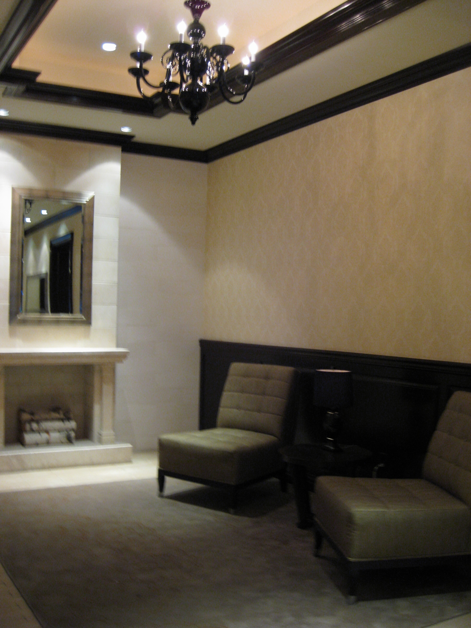 This photo is of Wikipedia Takes Manhattan location code 3, Bretton Hall, Manhattan.